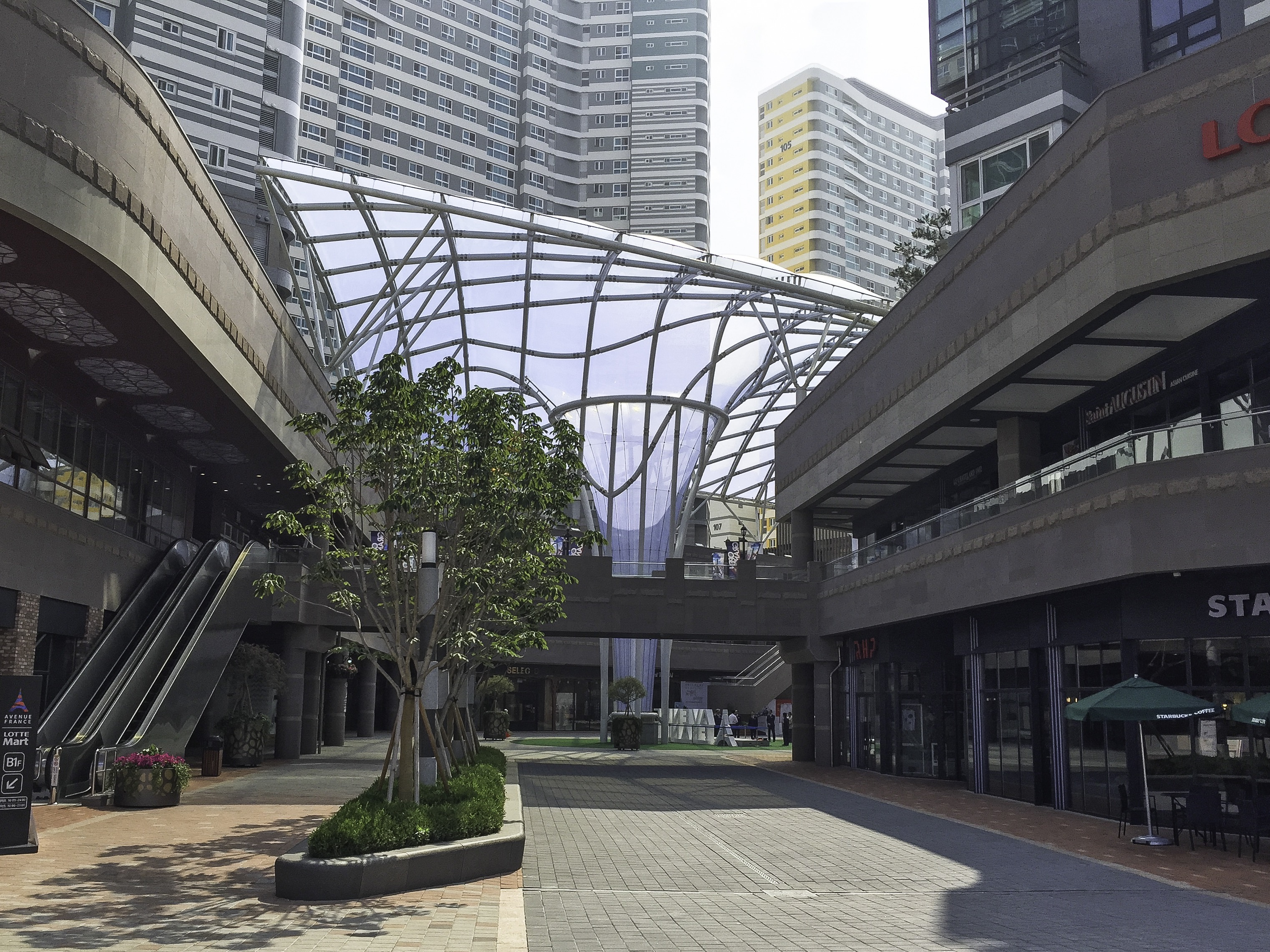 Entrance to Avenue France in Gwanggyo, Suwon, South Korea